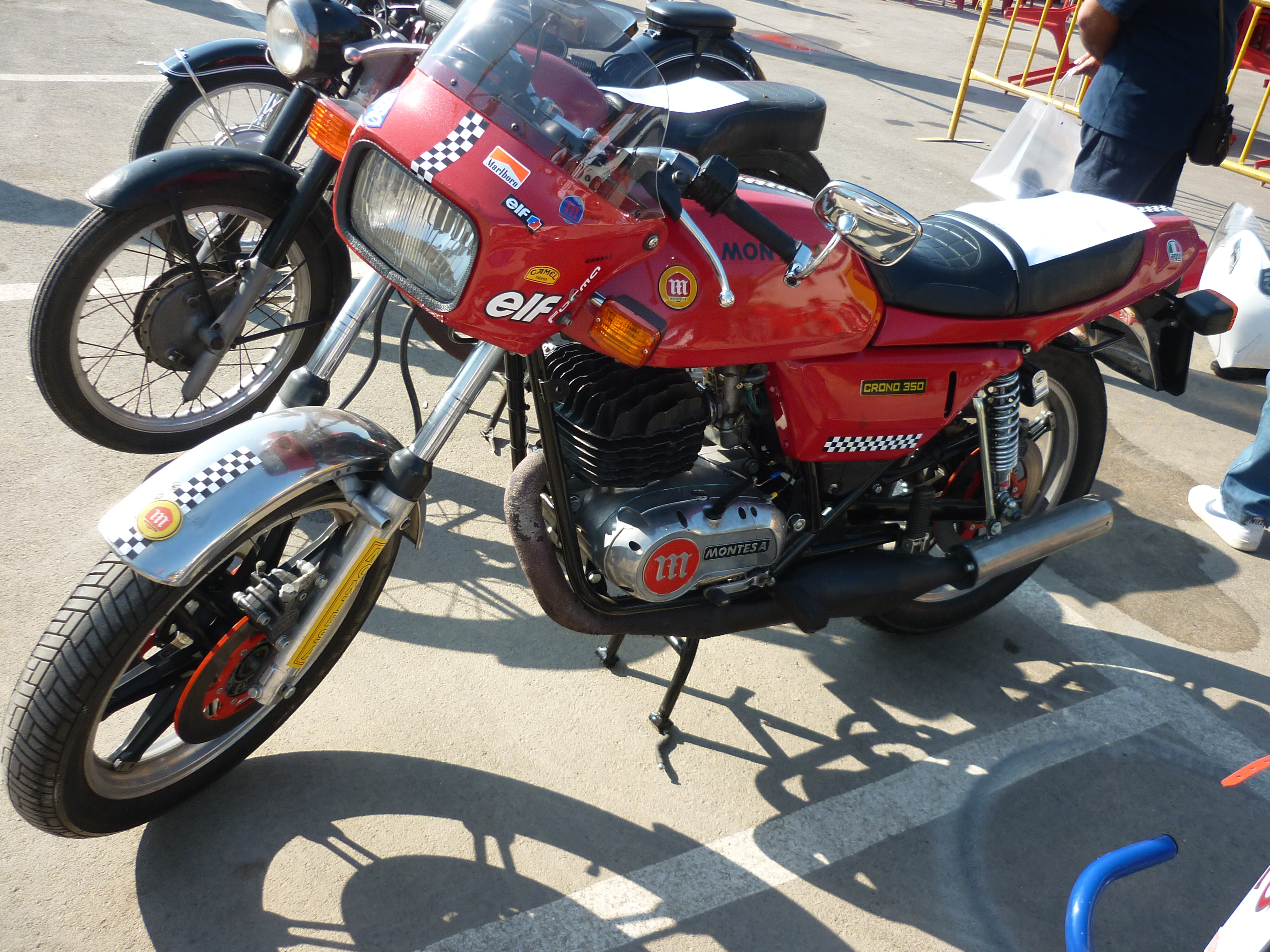 Montesa Crono 350 (1982).Motorcycle meeting held on September 10, 2011 in Can Carrancà (near the Derbi factory in Martorelles, Catalonia).